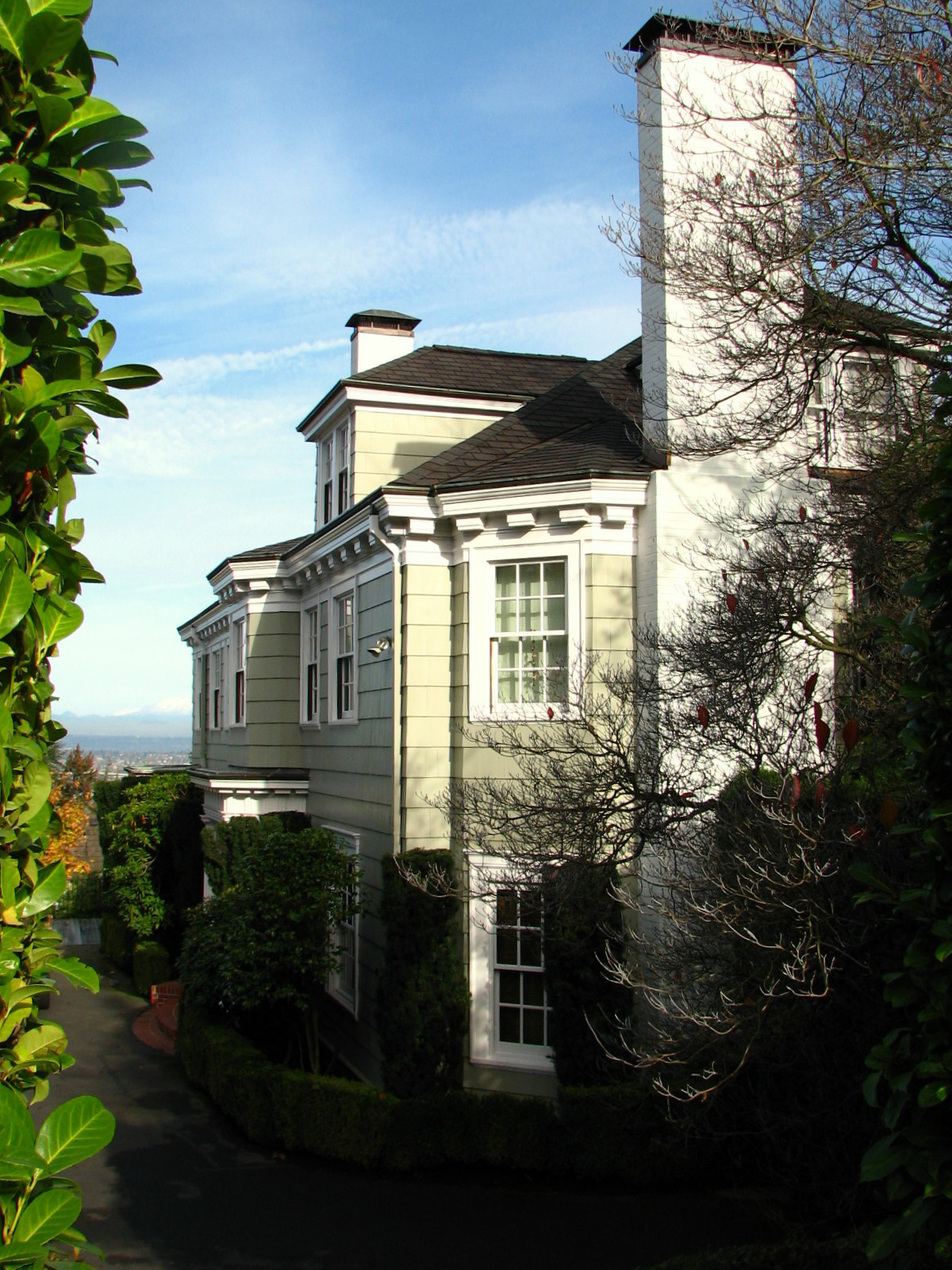 The historic Herbert and Elizabeth Malarkey House, located at 1717 Southwest Elm Street in Portland, Oregon, United States, is listed on the US National Register of Historic Places. Mount St. Helens is visible in the distant background.